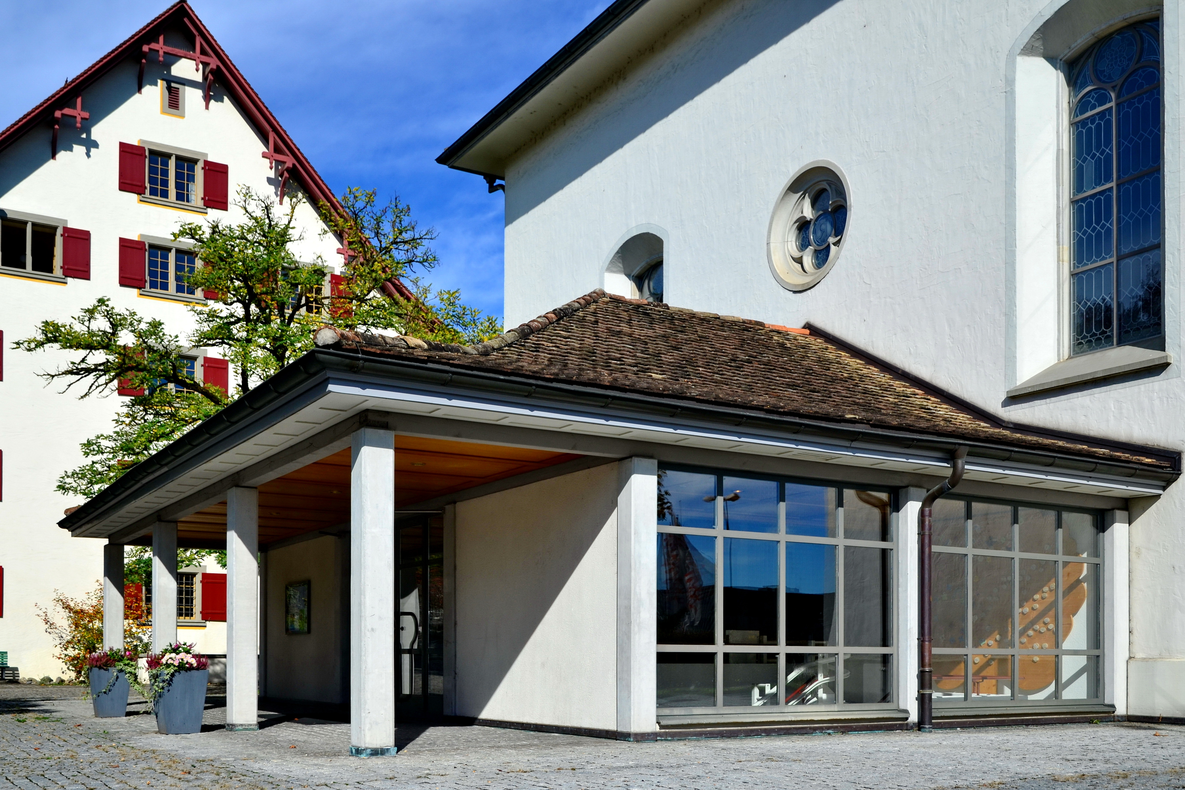 Former Premonstratensian Abbey St. Mary in Rüti (Switzerland), as of today Reformed church and its entrance hall where the Toggenburg burial vault was situated.